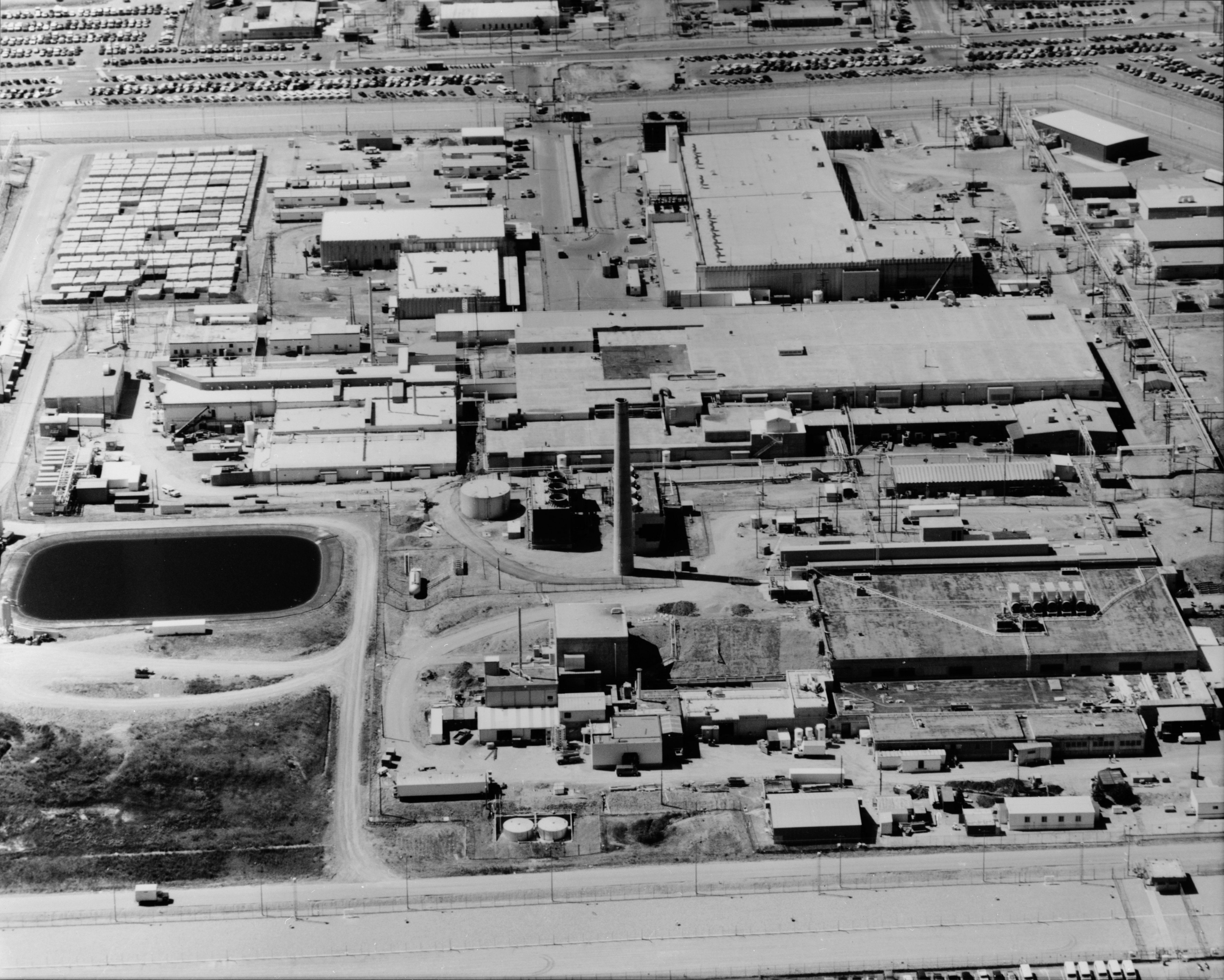 Rocky Flats Plant, plutonium fabrication, central section of plant. Aerial view looking south at the plutonium buildings (700s). Building 776/777 is the large building in the center portion of the photograph. building 771 is in the lower right corner, and building 707 is to the south of building 776/777.